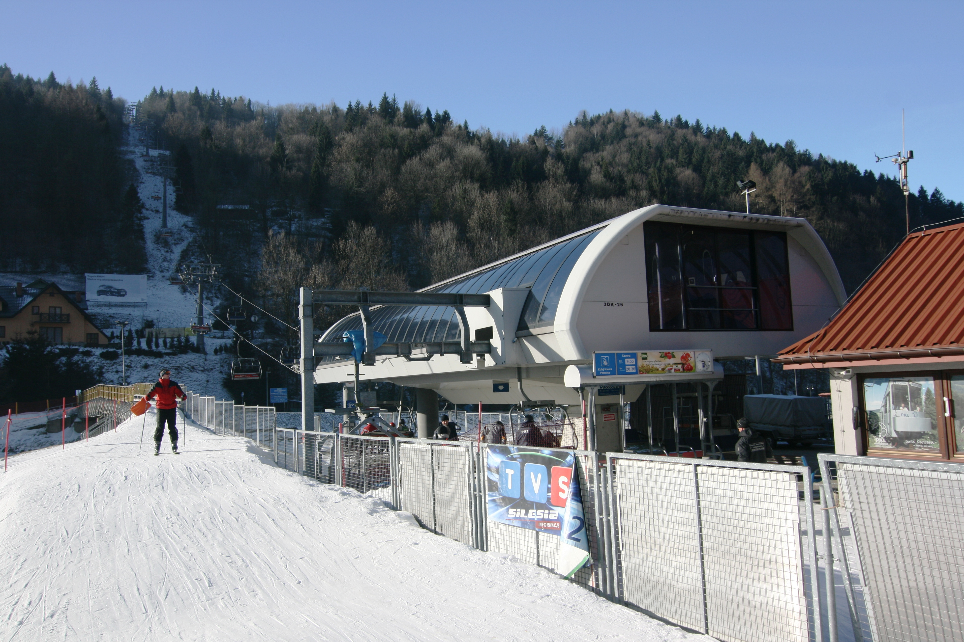 lower terminal of chairlift in Palenica ski area in Szczawnica